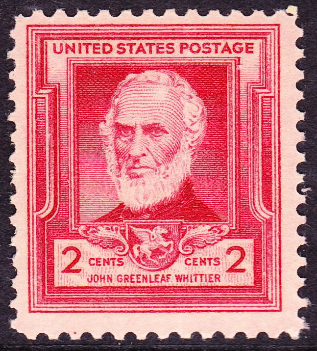 US Postage stamp, John Greenleaf Whittier 1940 Issue,2c.